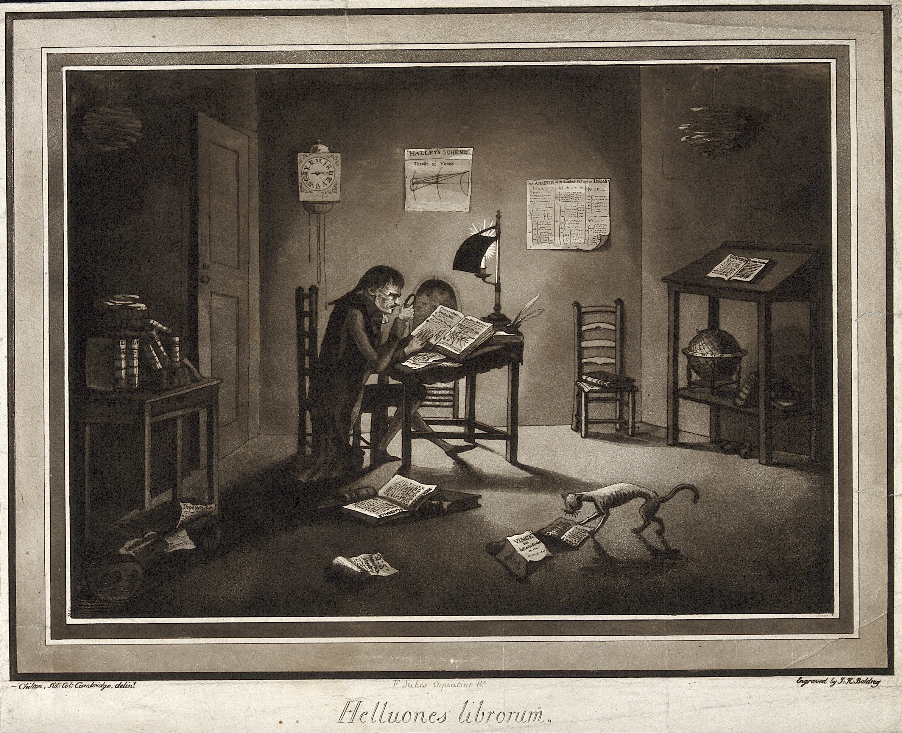 Astronomy: Samuel Vince reading in his rooms at Sidney Sussex College, Cambridge, by the light of a shaded lamp, on the floor his emaciated cat peruses the Ladies' Diary. Aquatint by F. Jukes with engraving by J. K. Baldrey after R. C. Chilton, c.1784?. Iconographic Collections Keywords: Robert Courbold Chilton; Astronomy; John Kirby Baldrey; c.1784; Samuel Vince; CAT; samuel vince; Cats; Francis Jukes; ic; Reading